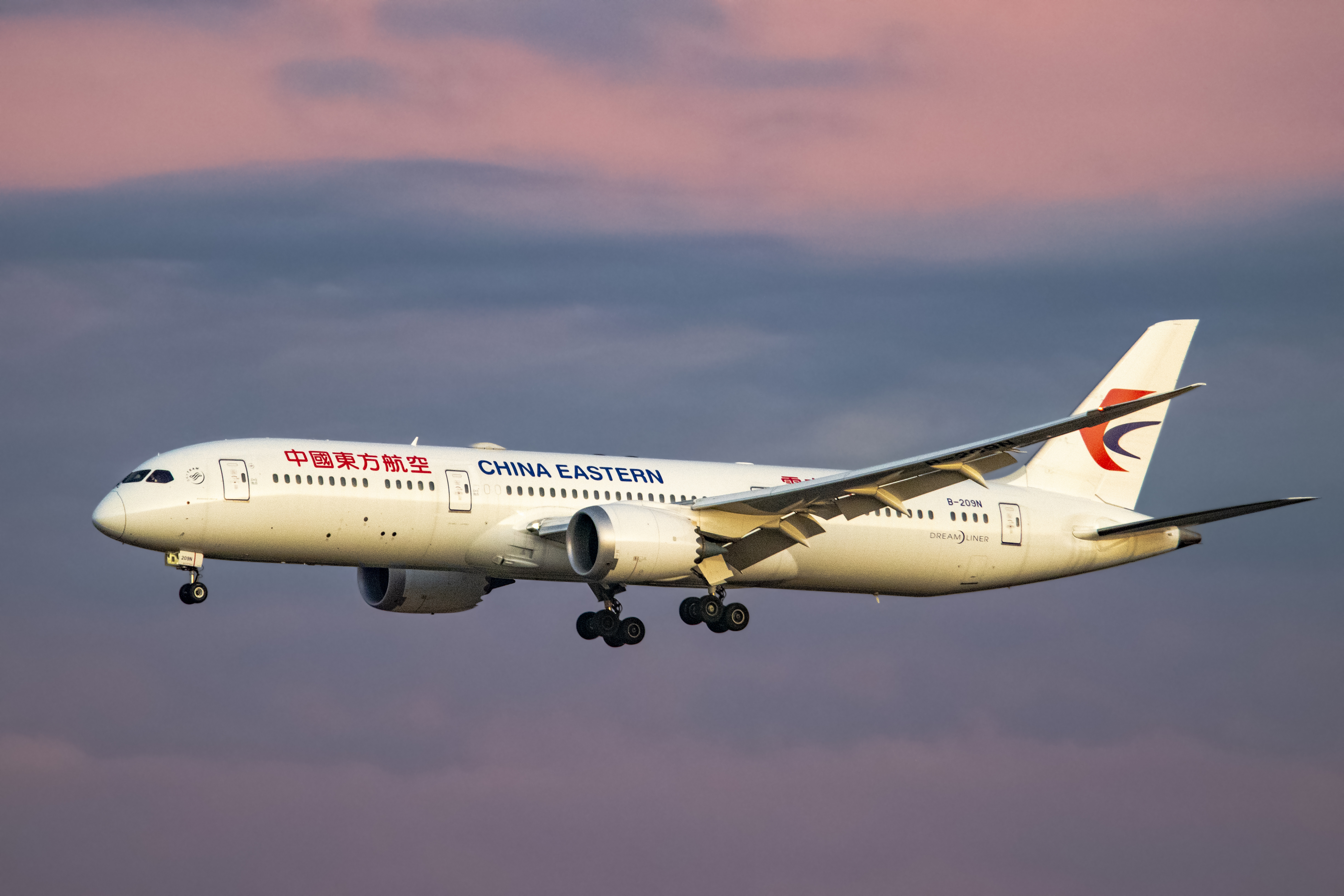 Dongfang 5707 from Kunming. Didn't expect to meet this fellow again at 01!